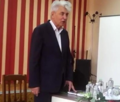 Russian writer and poet Andrey Rumyantsev in Sofia, 2017